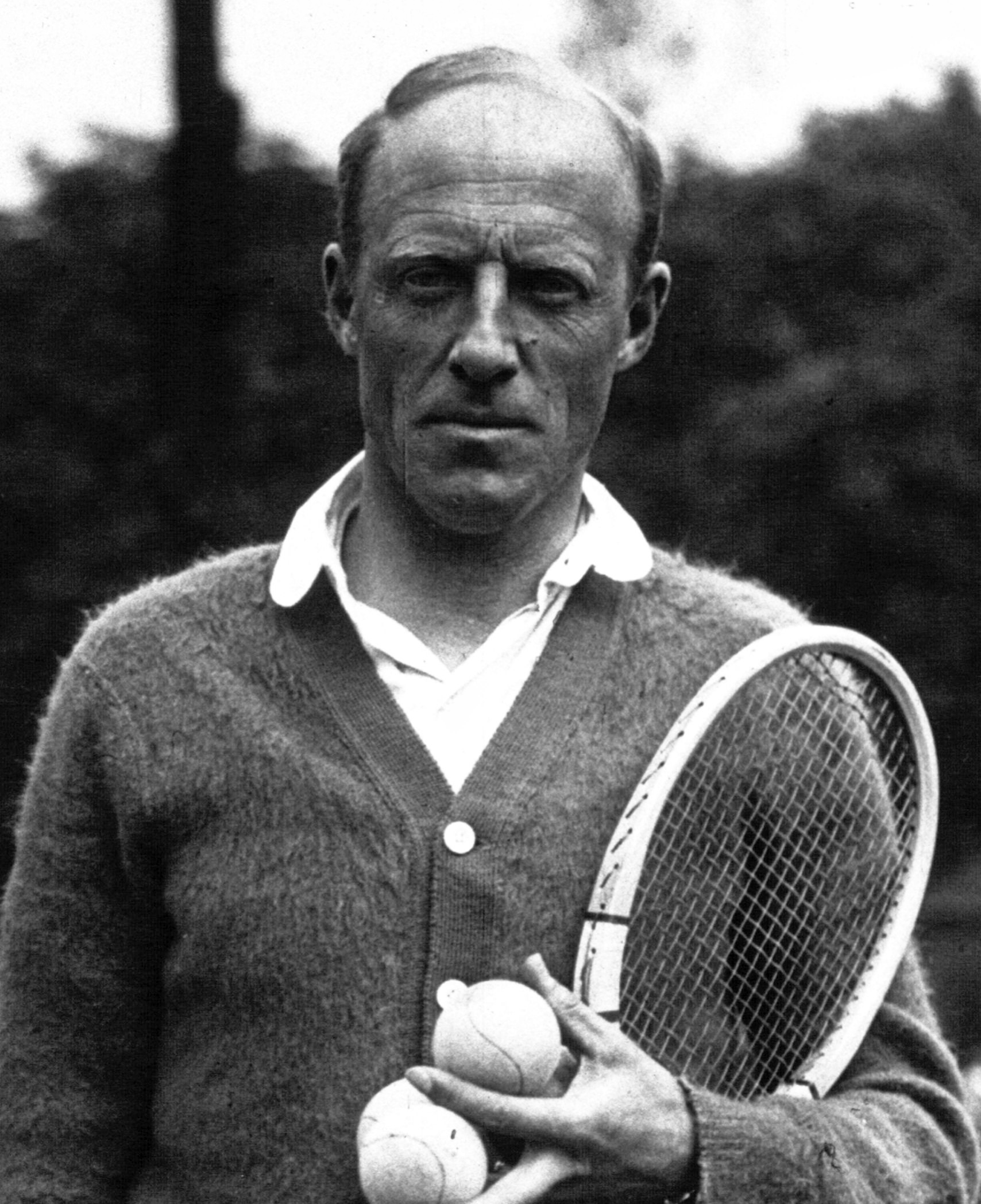 Stade Roland Garros, French Championships, Paris, France, 1928, Christiaan van Lennep, Ducth tennis player